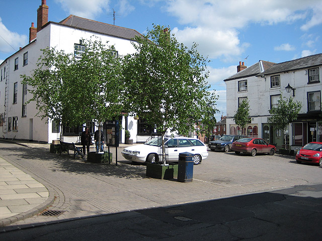 The Square, Bromyard From Broad Street, with the Hop Pole Hotel behind the trees.